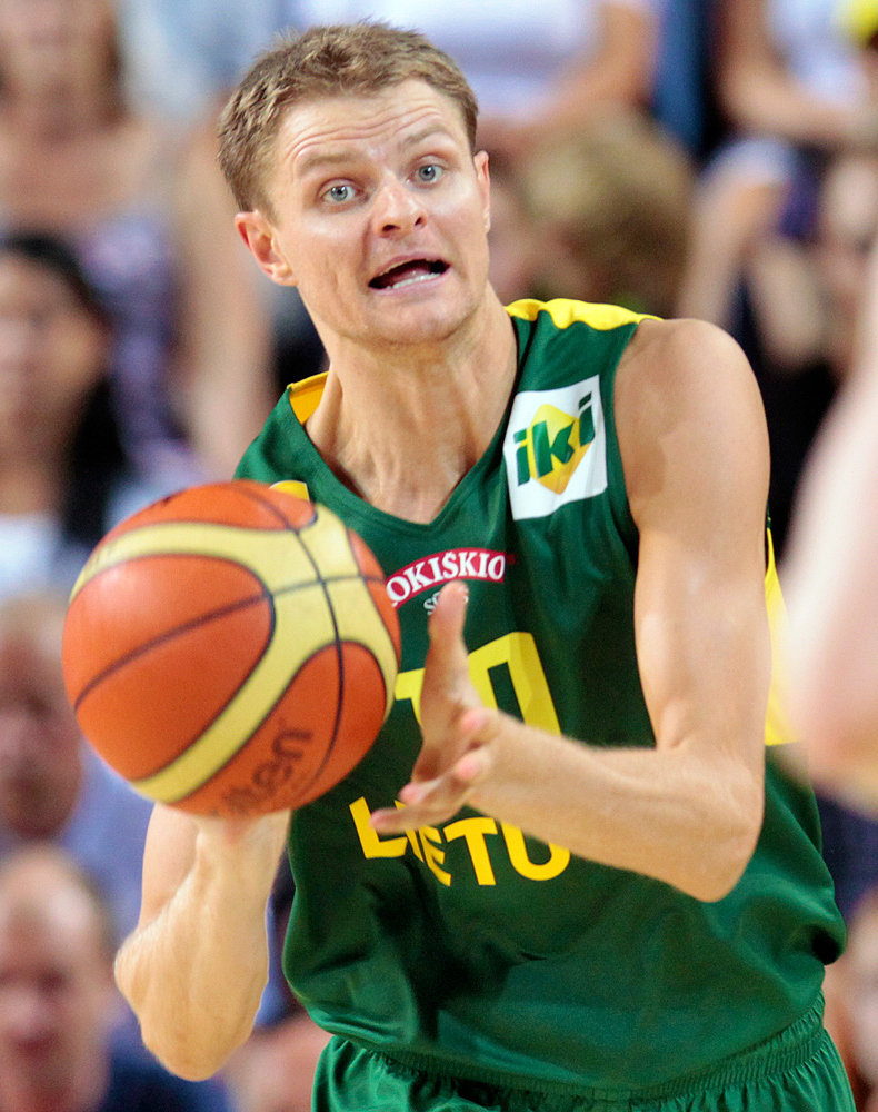 Lithuanian basketball player Renaldas Seibutis